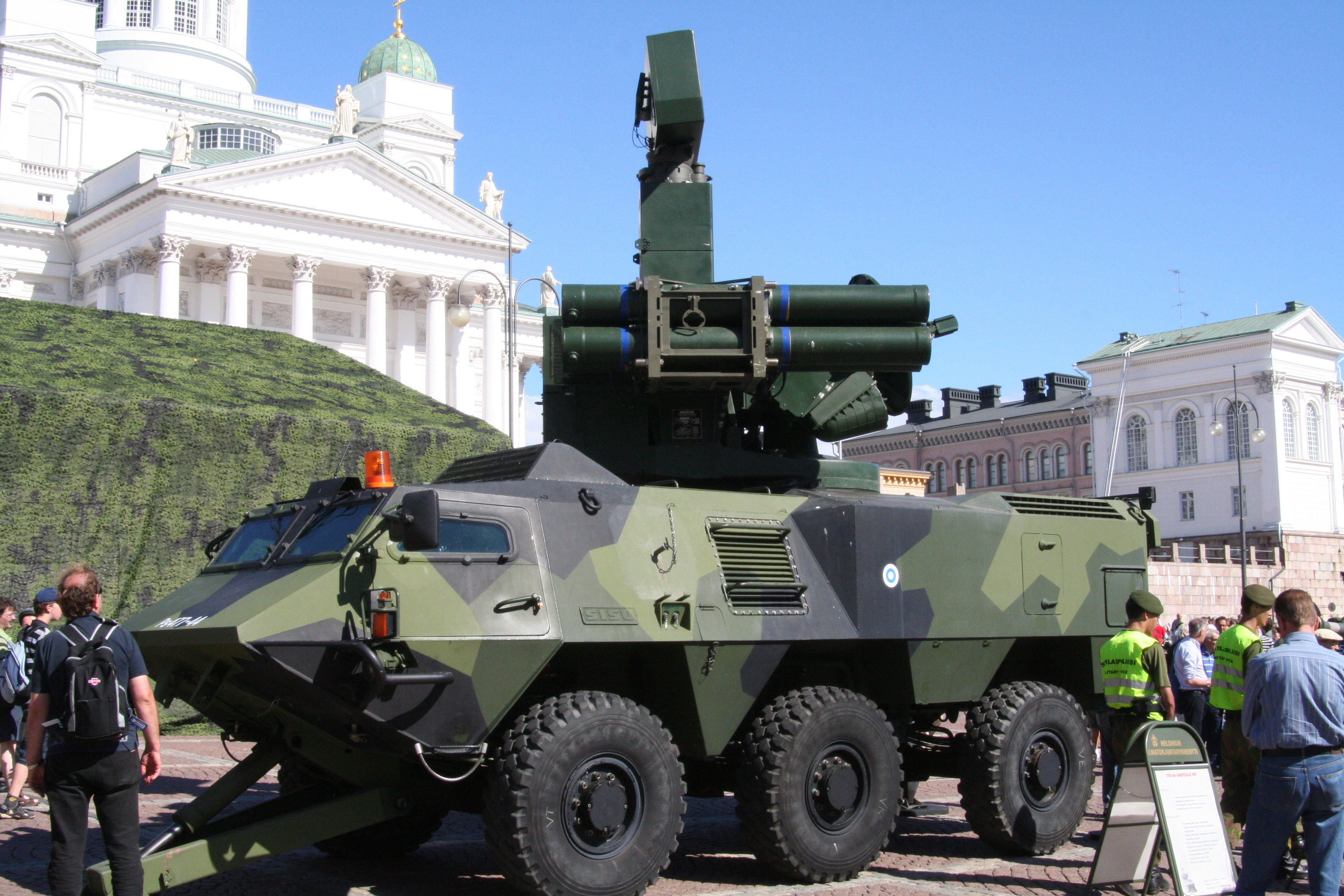 Finnish army Sisu XA-180 with Crotale (iTO 90) in Helsinki